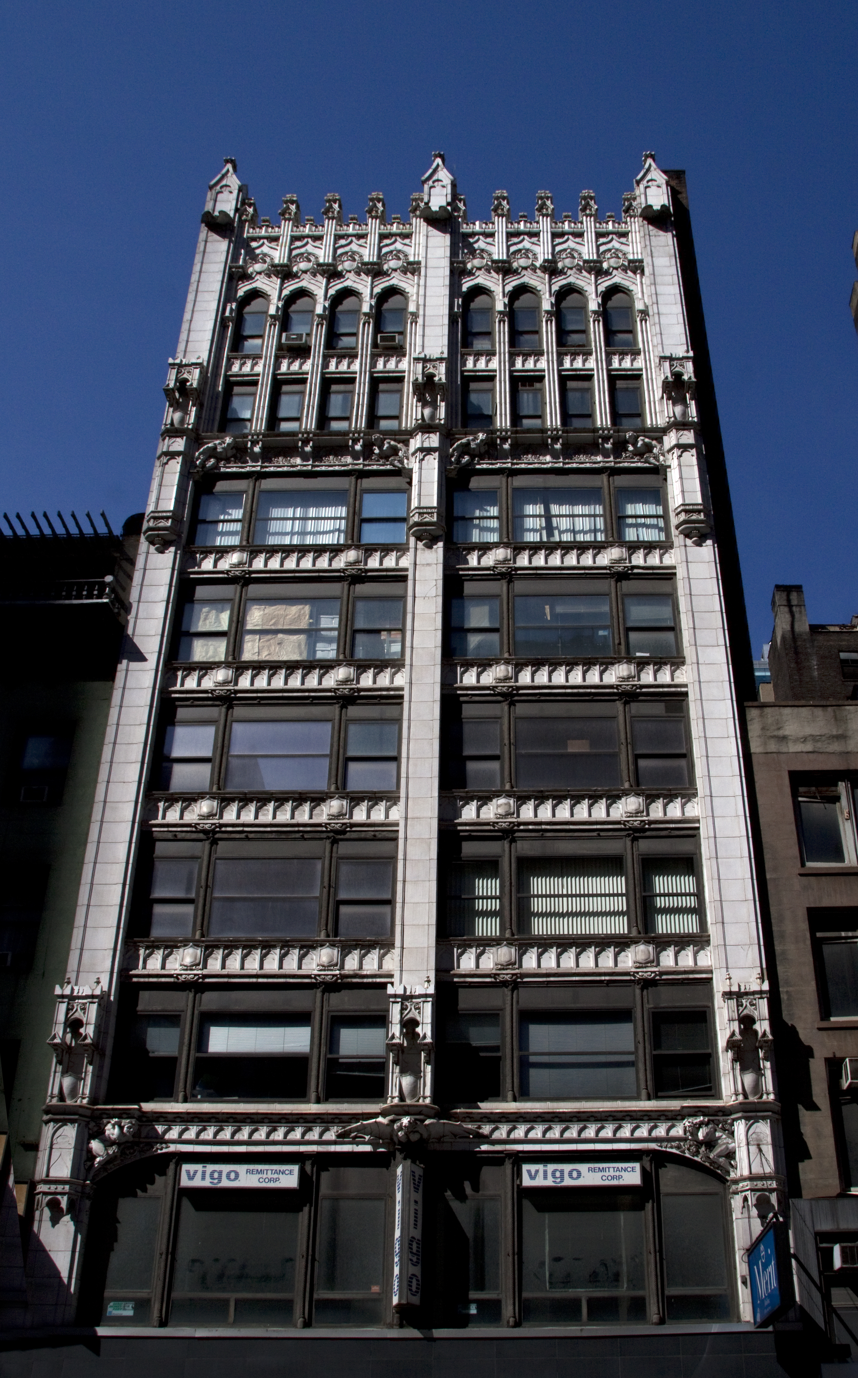 33 West 46th Street